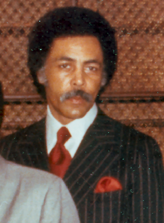 Founding members of the Congressional Black Caucus. Standing L-R: Parren Mitchell, Charles Rangel, Bill Clay, Ron Dellums, George W. Collins, Louis Stokes, Ralph Metcalfe, John Conyers, and Walter Fauntroy. Seated L-R: Robert N.C. Nix, Sr., Charles Diggs, Shirley Chisholm, and Augustus F. Hawkins.